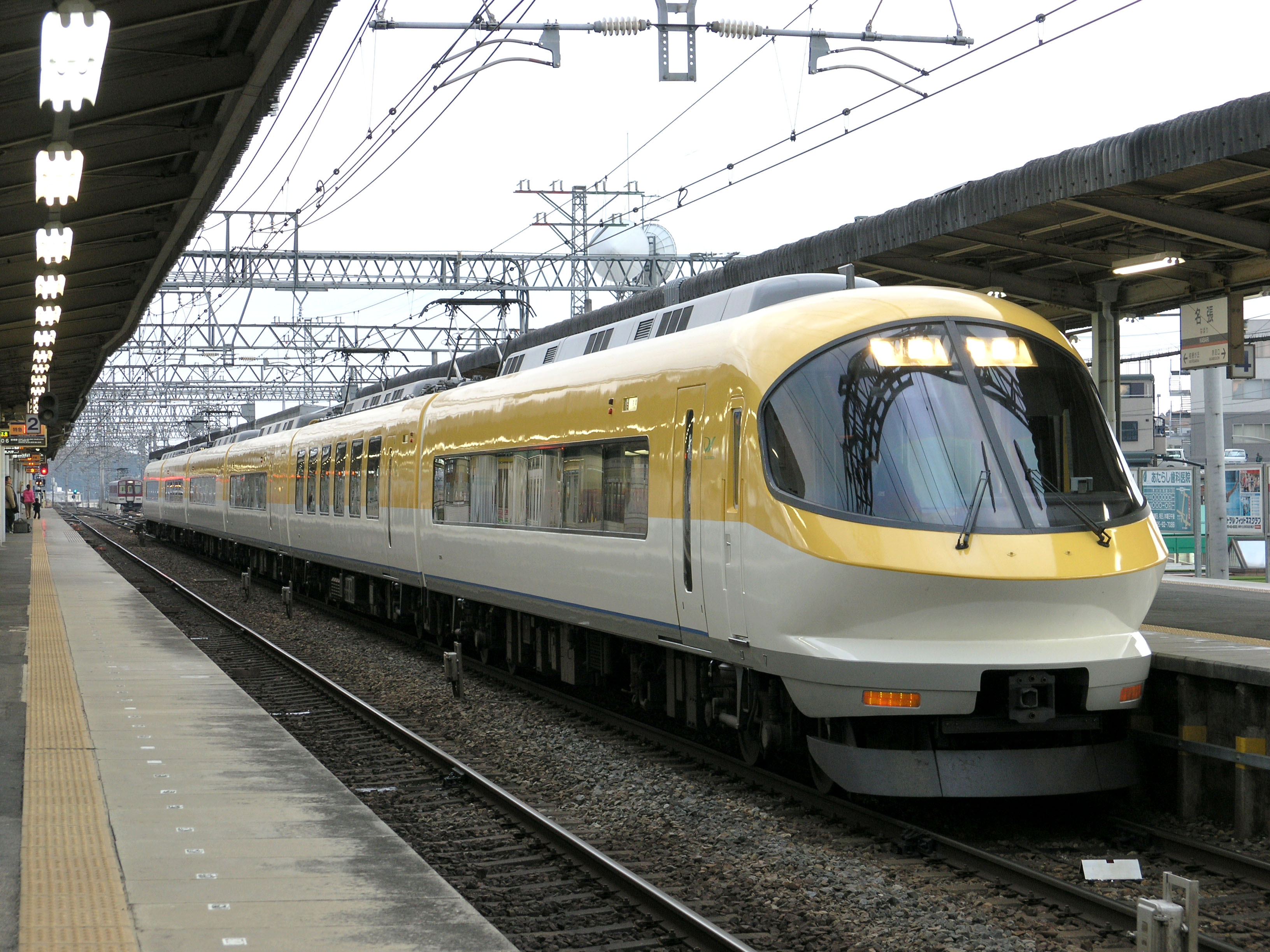 Kintetsu 23000 series EMU at Nabari Station